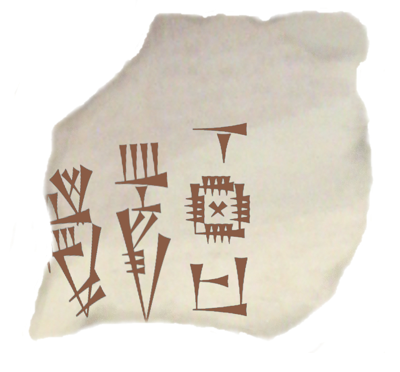 Mebaragsi, King of Kish (transcription of fragment, original in Iraq National Museum)Transcription of the original in the Iraq National Museum